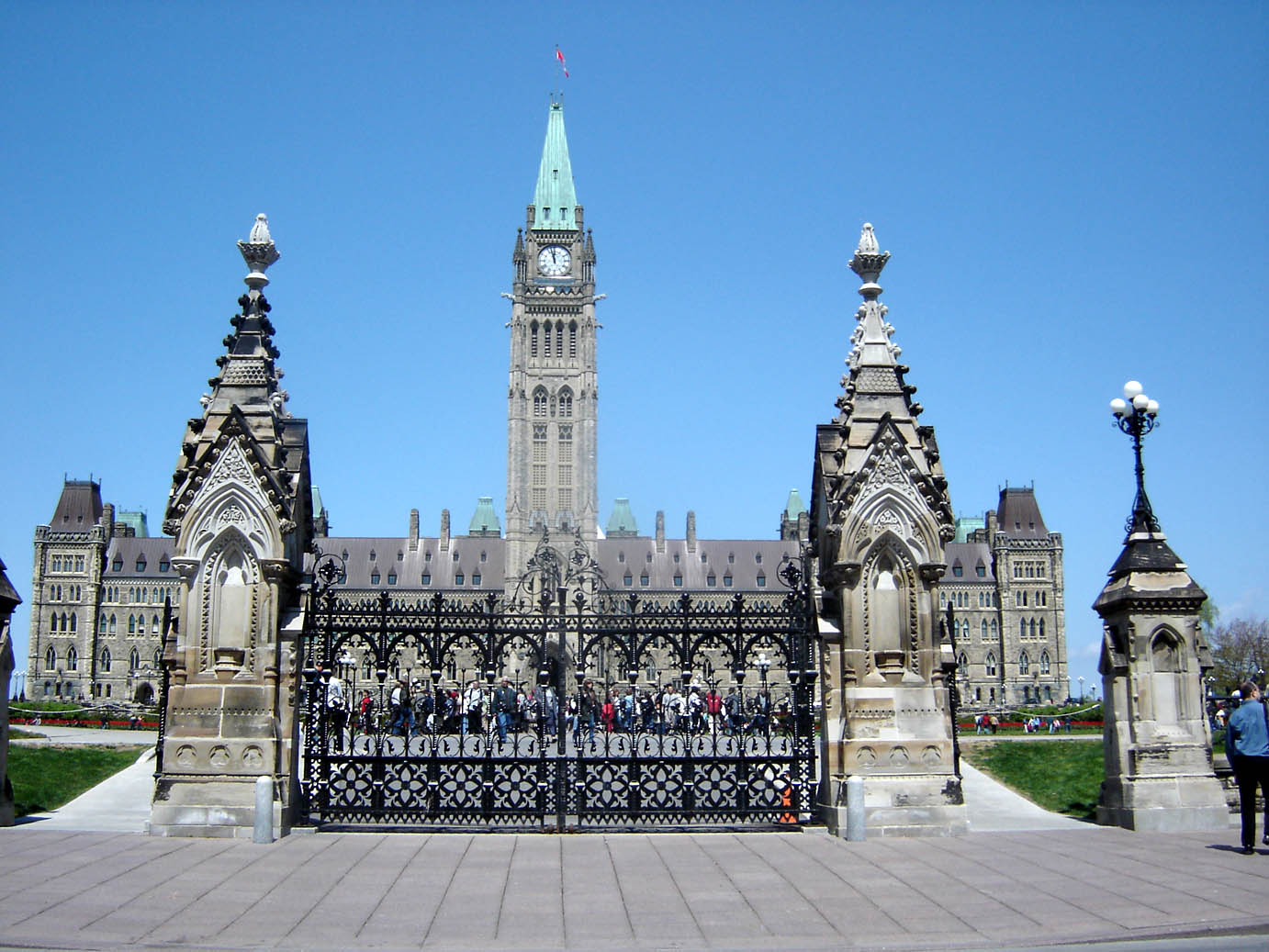 The entrance to Canada's Parliament Hill in Ottawa, Ontario.